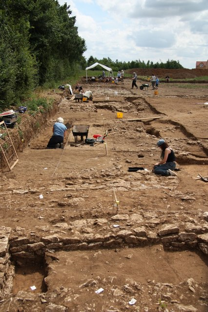 Roman Navenby Archaeological dig beside High Dike / Ermine Street at Navenby. A Roman Station on Ermine Street, about mid-way between Lincoln and Ancaster